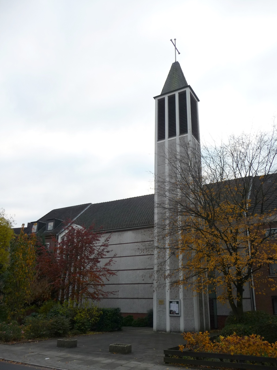 church St. Benedikt n Bremen-Woltmershausen